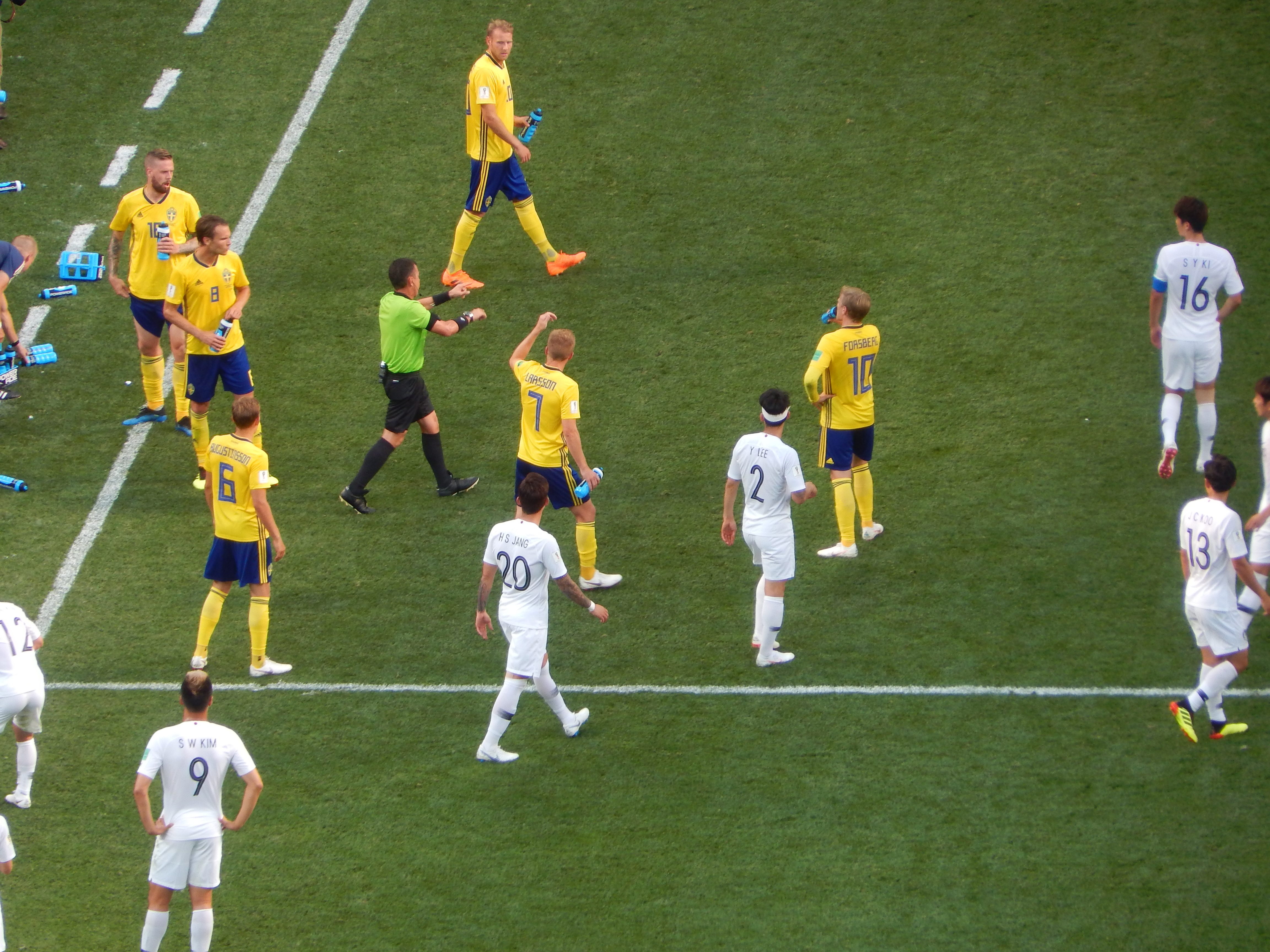 Joel Aguilar gives a penalty kick to Sweden after VAR